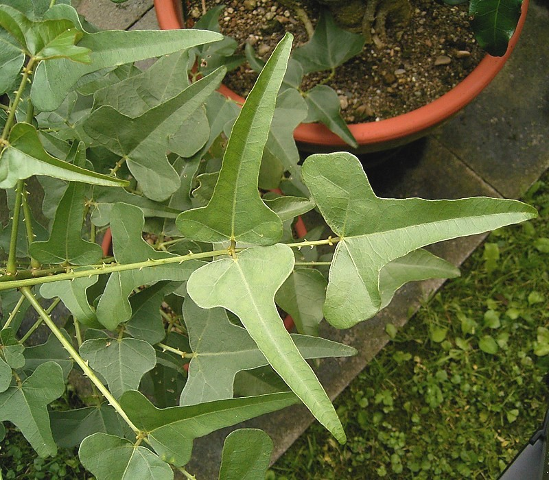 Erythrina herbacea